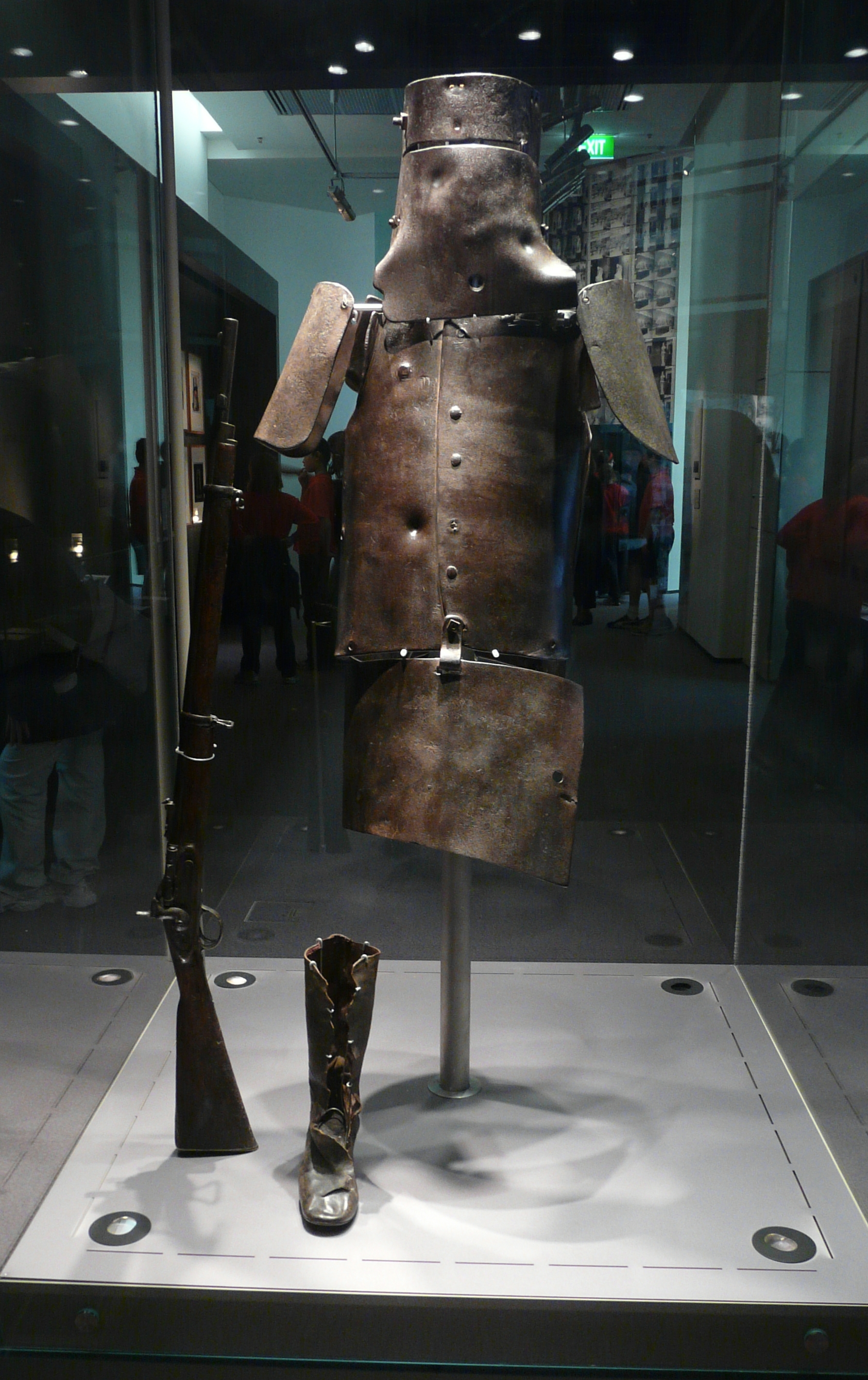 Ned Kelly armour, located at the State Library of Victoria, Melbourne, Australia